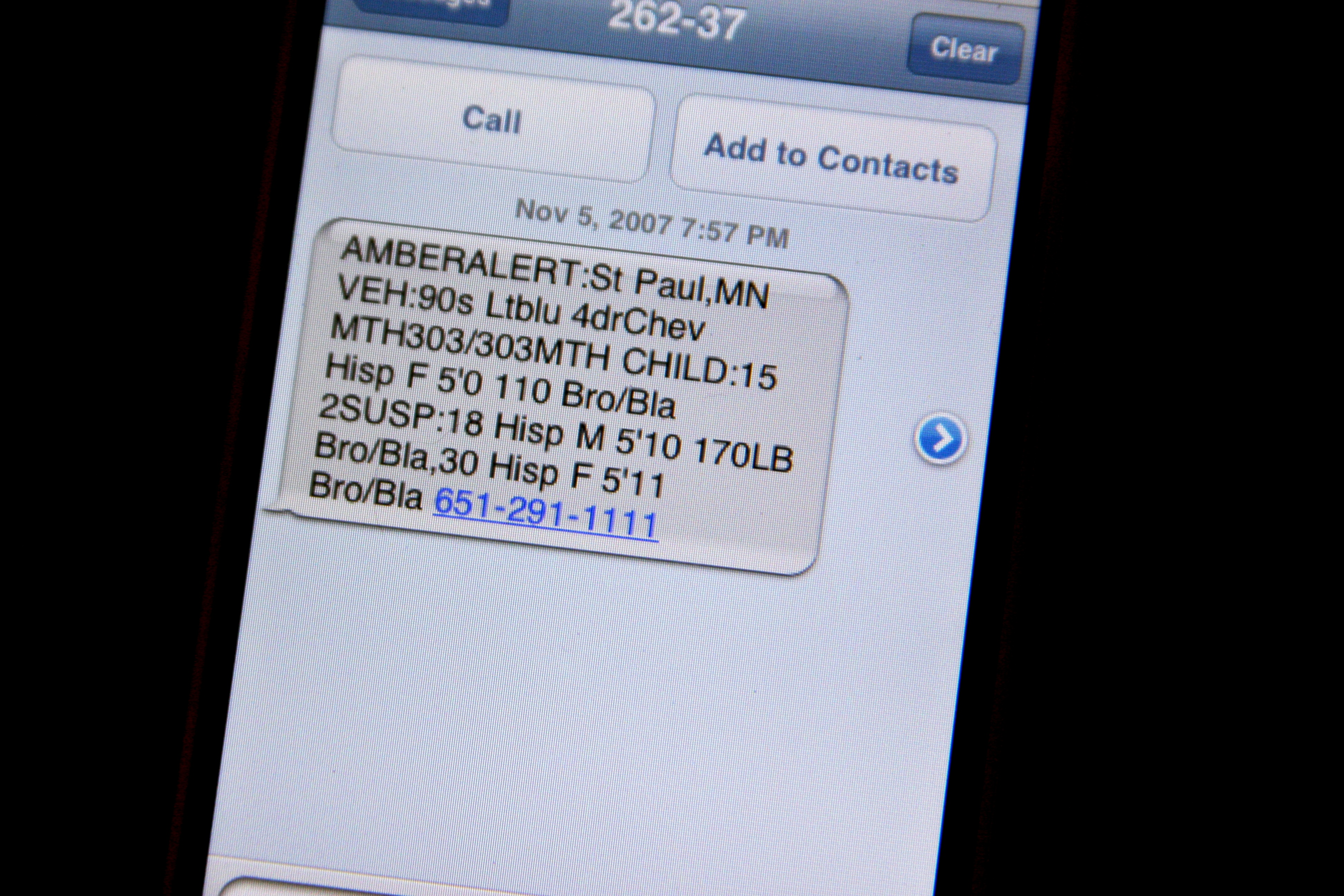 A text message (SMS) Amber Alert is displayed on a first-generation Apple iPhone in Saint Paul, Minnesota.